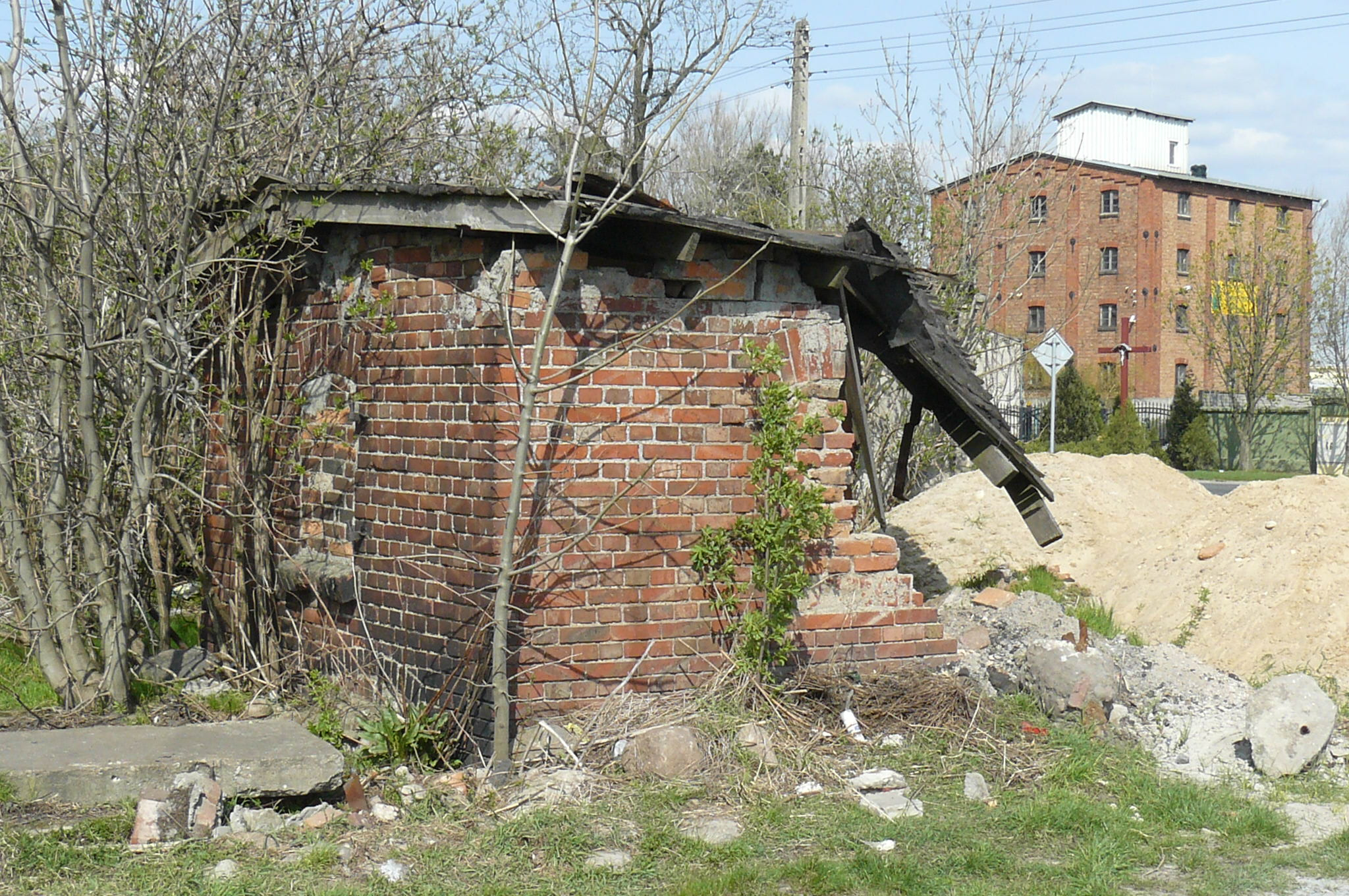 Pławce - ex Rail Station.